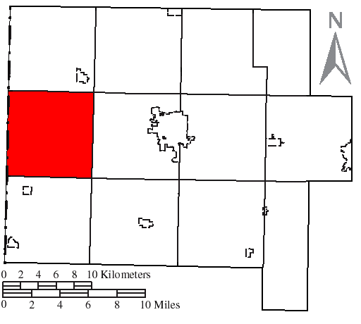 Made by the US Census and modified by myself